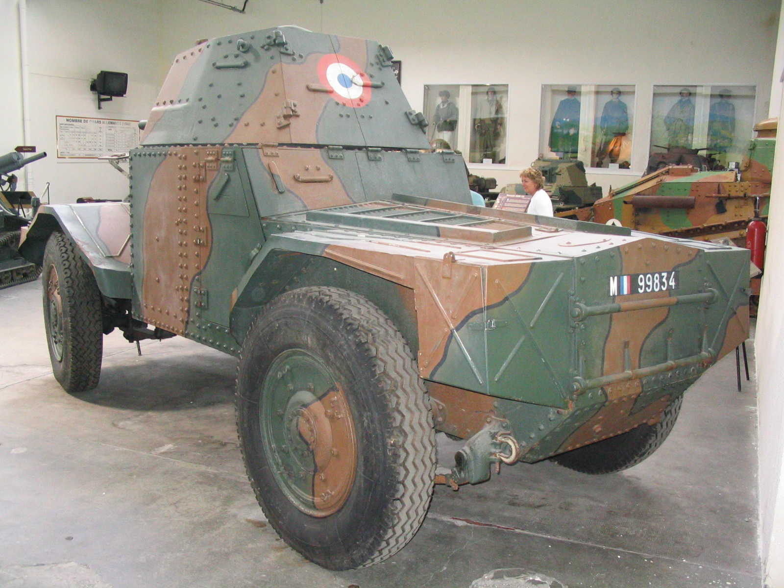 The AMD 35 Panhard 178 at Saumur museum